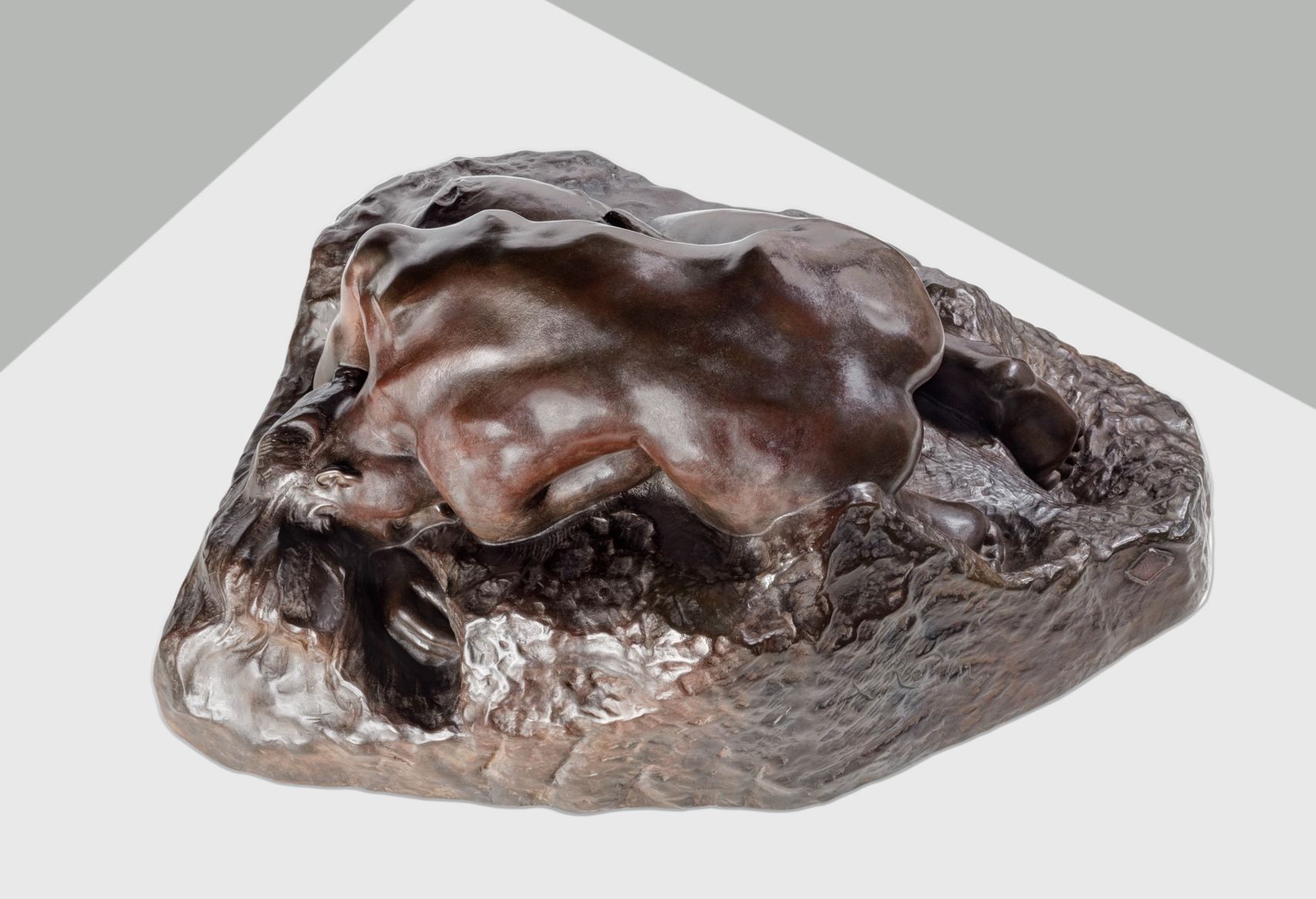 La Danaïd